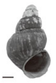 Black-ang white photo of an apertural view of the shell of Margarya francheti (Mabille, 1886) (synonym: Margarya tropidophora) (IOZ-FG89708), Lake Er-hai. Scale bar is 1 cm.